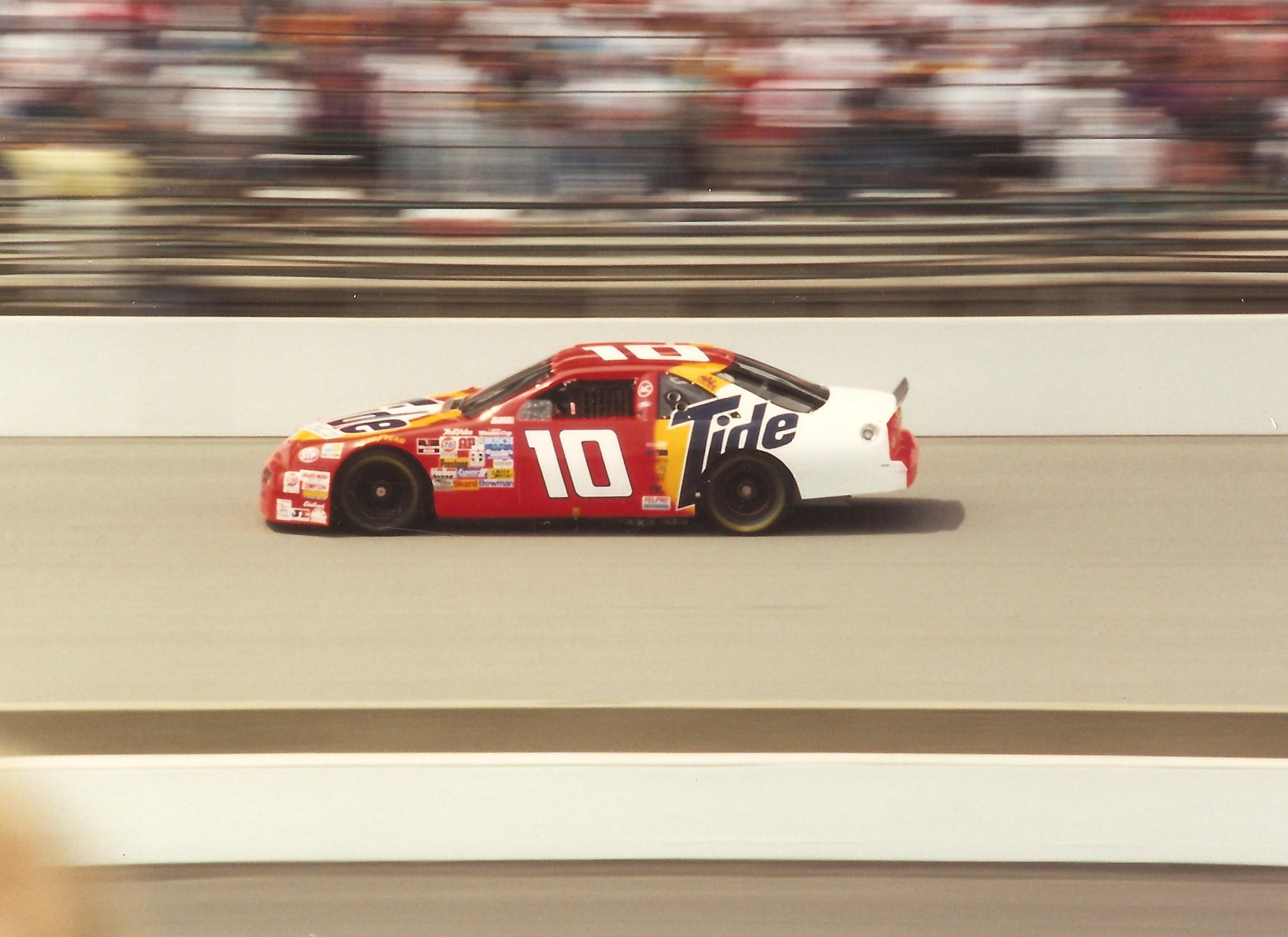 1994 NASCAR Brickyard 400 at the Indianapolis Motor Speedway. Ricky Rudd in car #10.